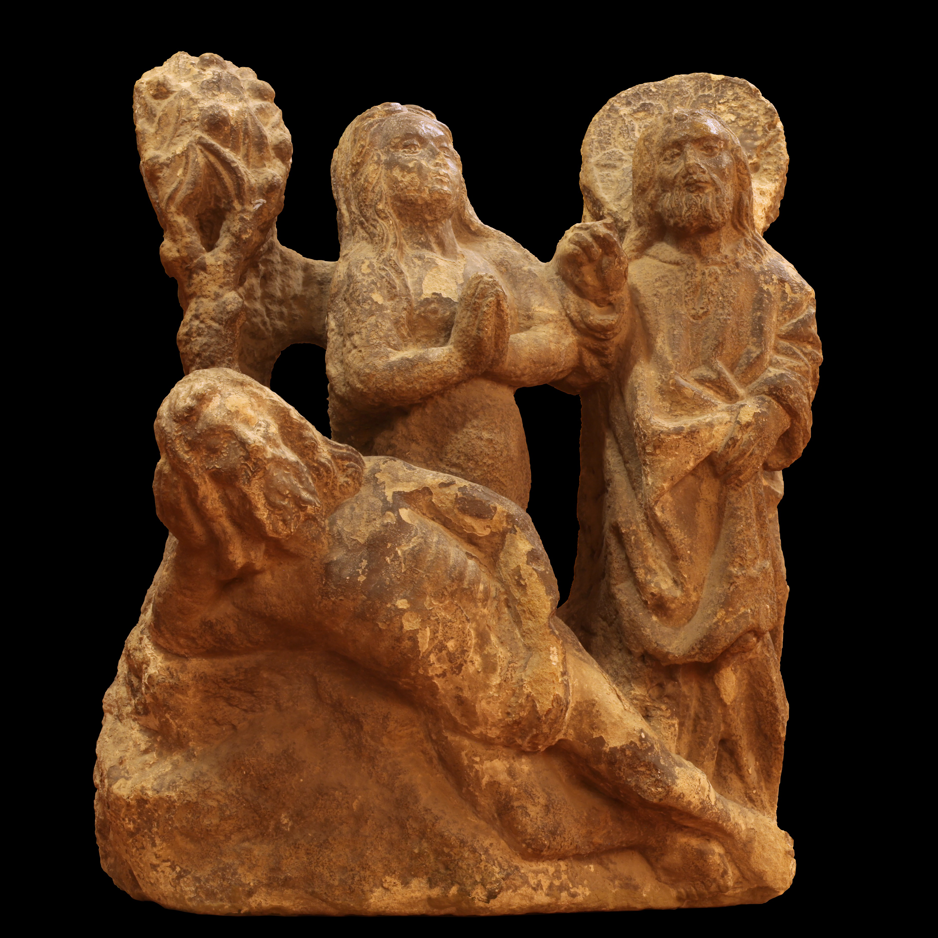 Creation of Eve, sandstone from Montbenon (Lausanne), circa 1515. Formerly part of Montfalcon porch, built in 1515 and demolished in the 19th century. On display at the Musée historique de Lausanne.